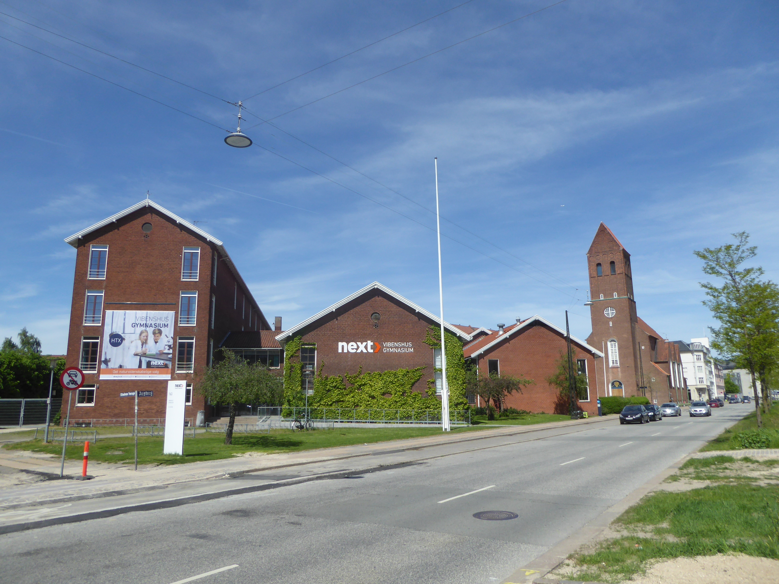 The high school Vibenshus Gymnasium and the church Taksigelseskirken at Jagtvej in Østerbro in Copenhagen.